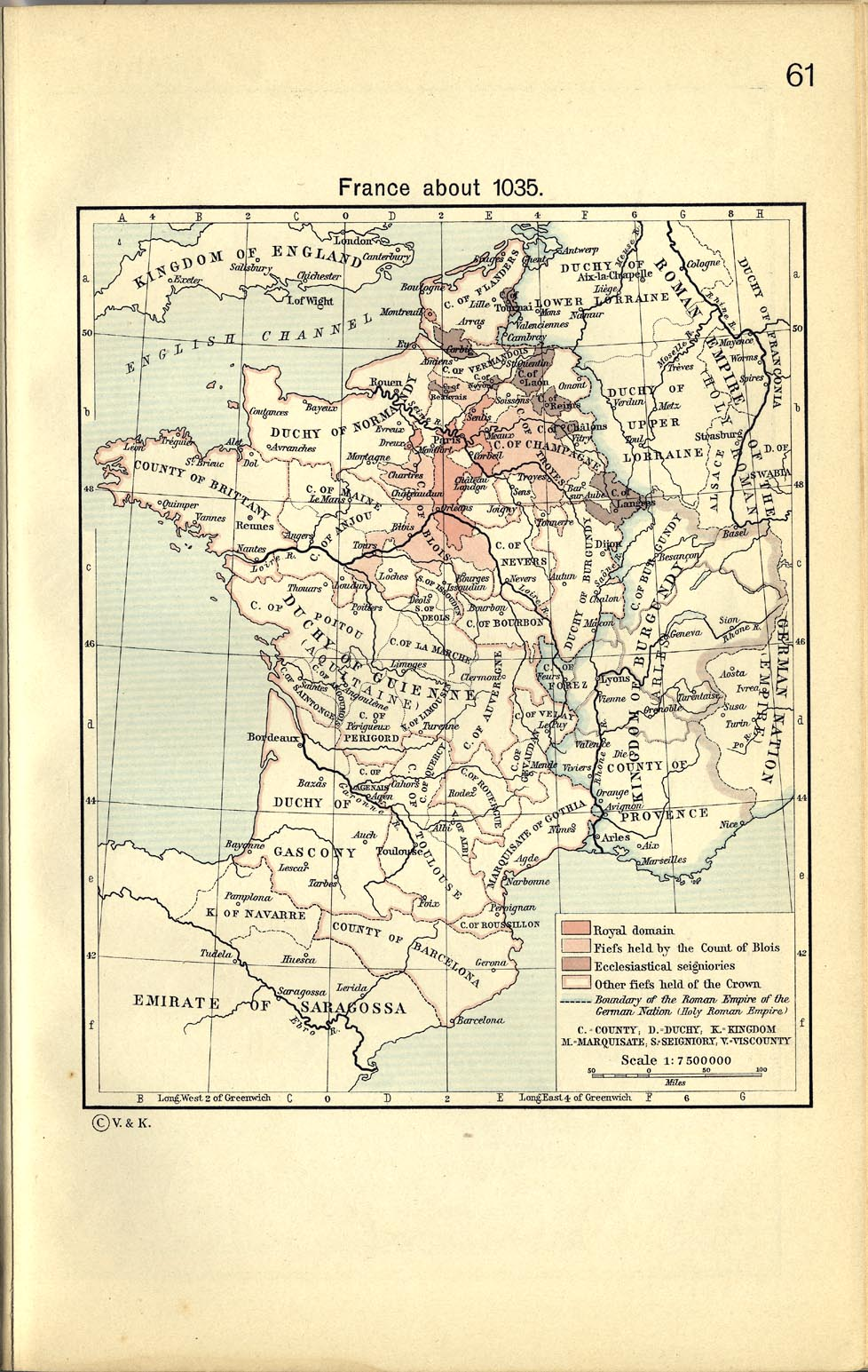 France about 1035